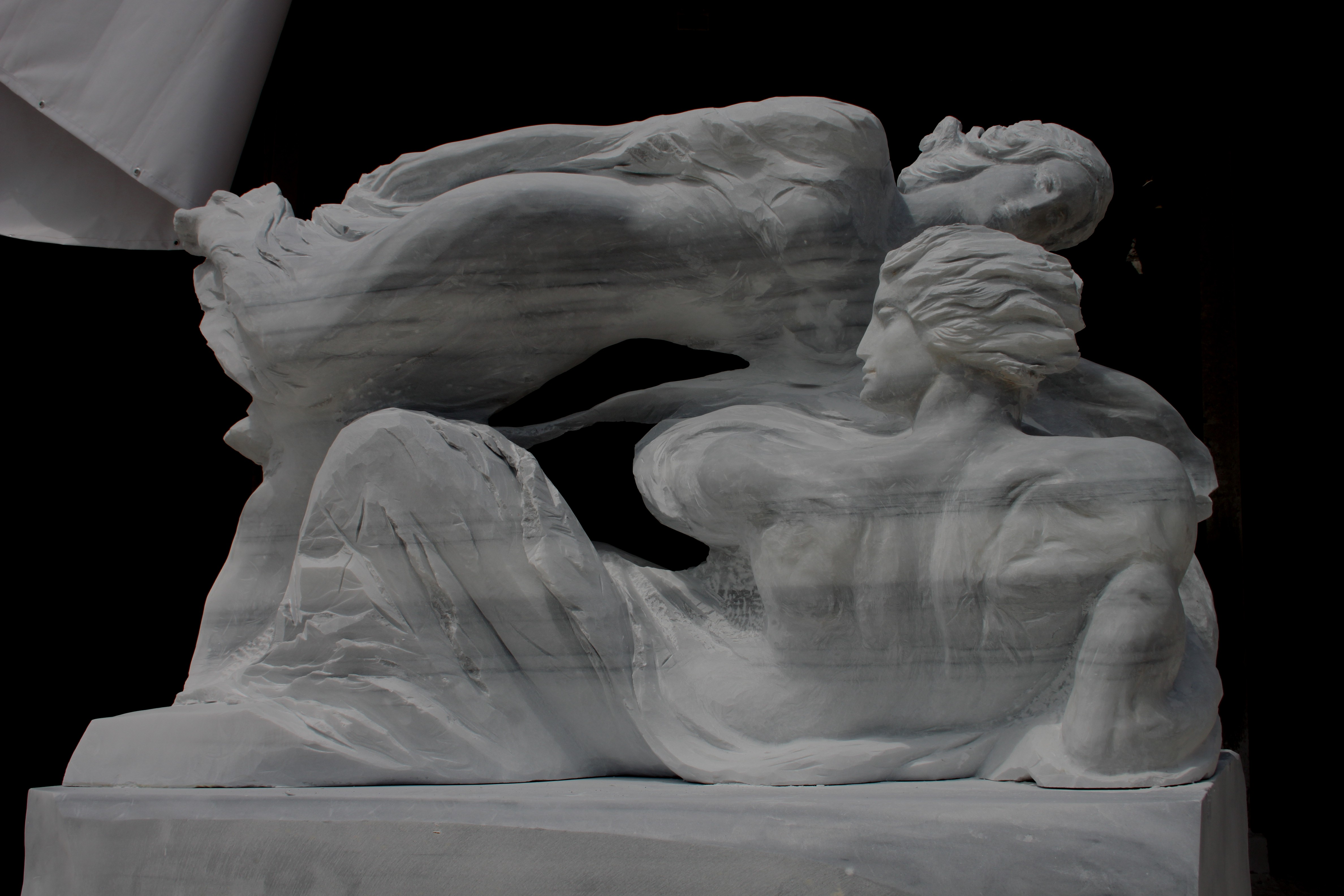 Turkey,Marmara Island 2015